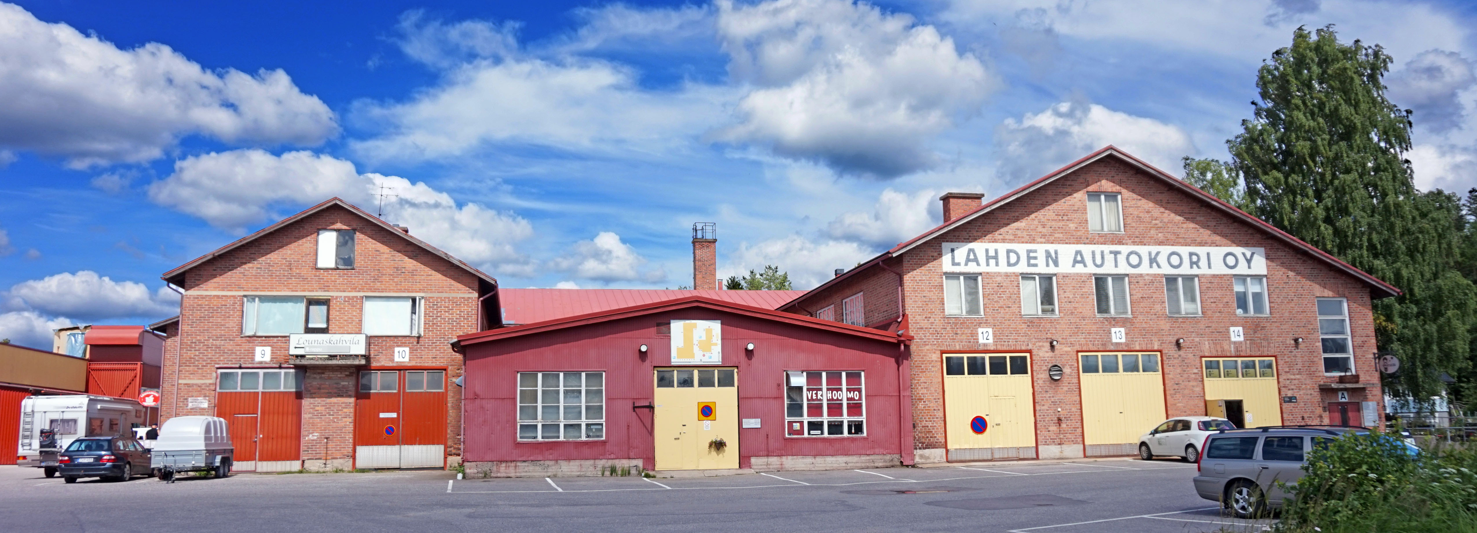 Lahden Autokori Oy in Lahti, Finland.This photograph was taken with a Sony ILCE-5000